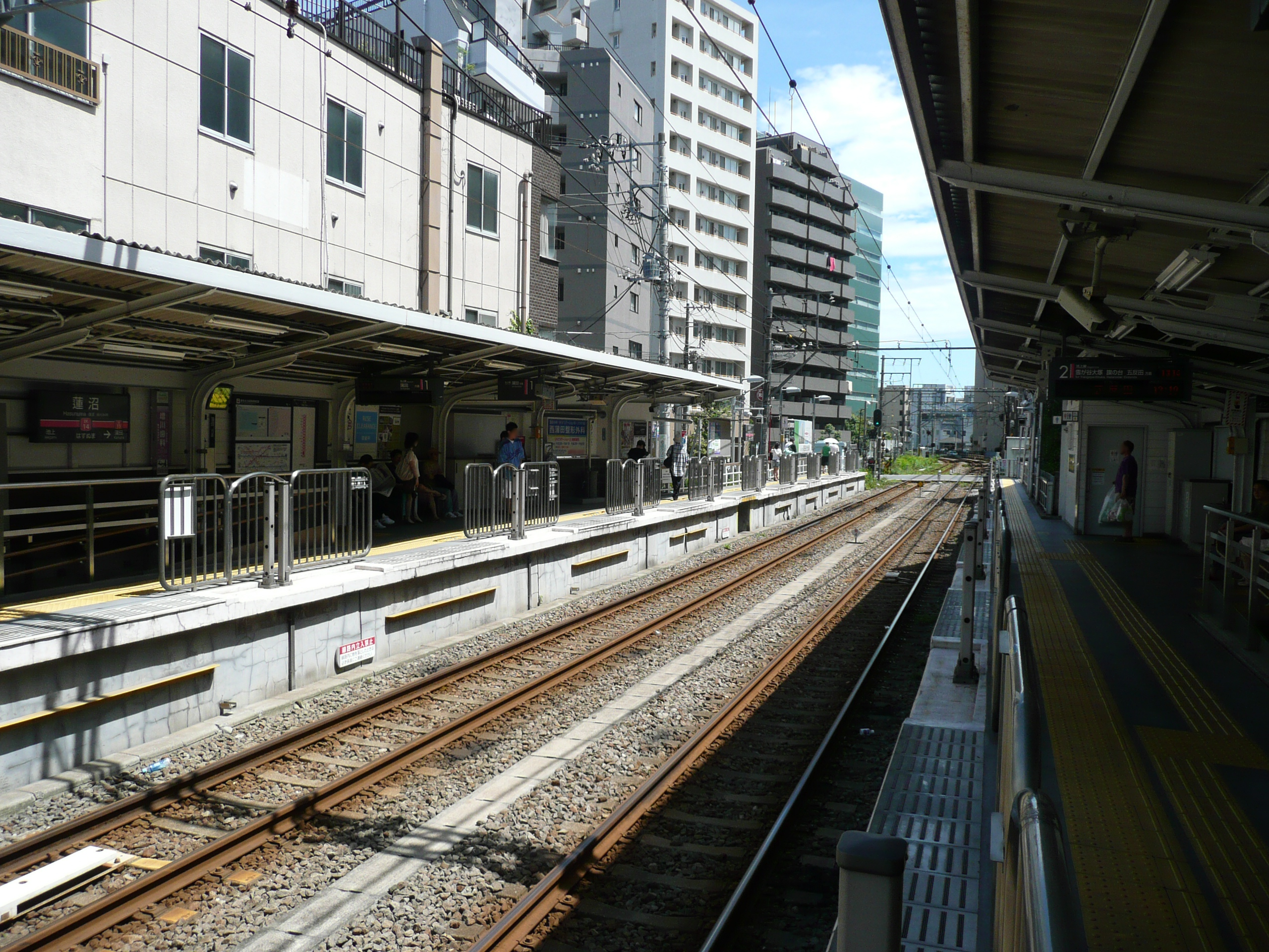 Platform of Hasunuma Station